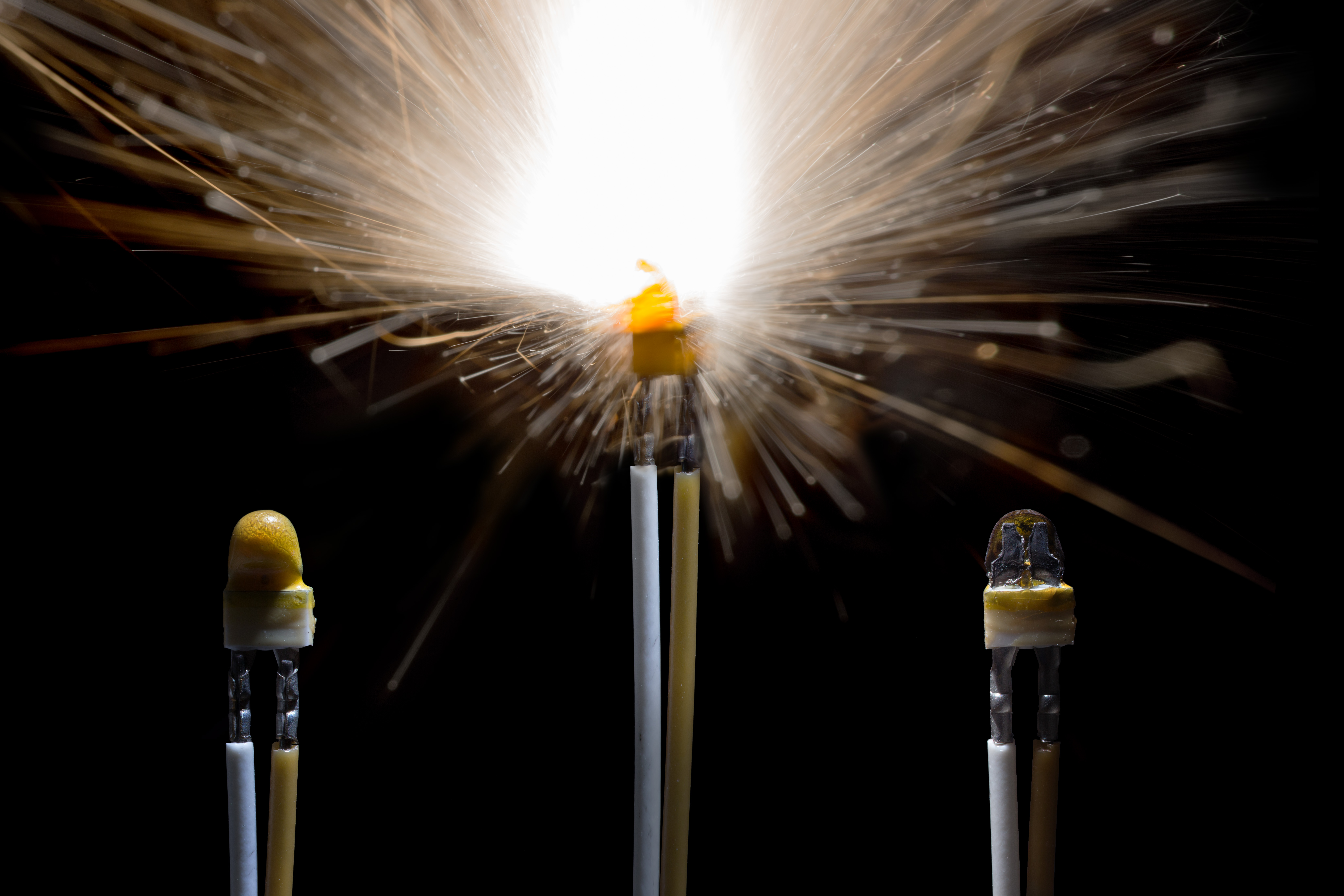 An E match type U at the moment of ignition, shown together with the same E match before detonation (left) and after detonation (right). An E match includes a thin wire submerged in a material that will ignite easily by the heat of the glowing wire by applying current (approx. 2 A required for this type). E-matches are used all over the world to ignite fireworks and similar pyrotechnic charges. Usually they are buried deep inside and controlled from far away. This image shows an untouched one on the left, in the moment of ignition in center and lastly one after ignition, revealing the insides.